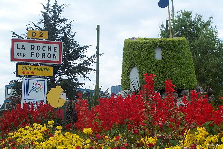 La Roche-sur-Foron in France.